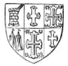 Possible coat of arms of the Salinas family